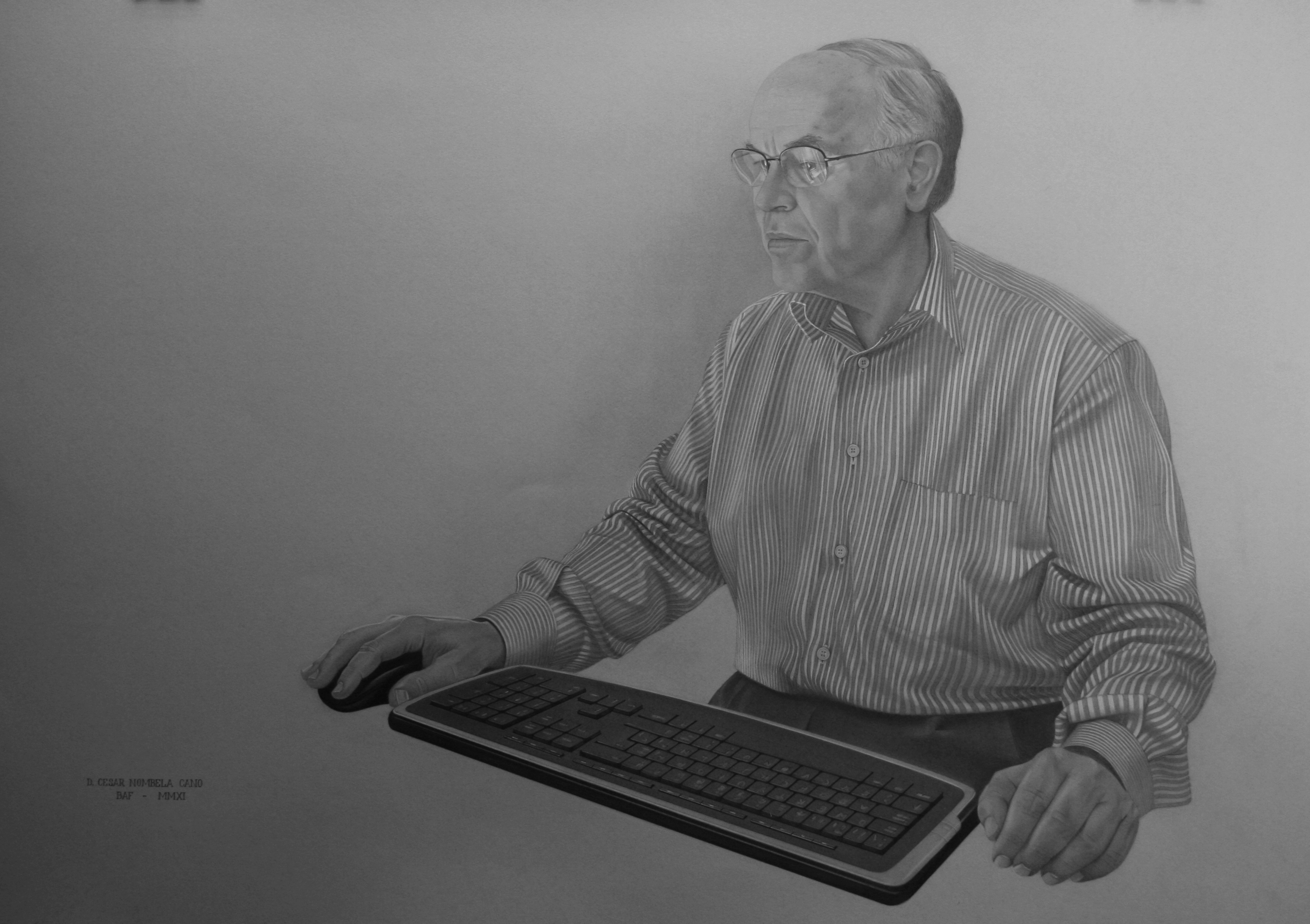 Portrait drawing of Cesar Nombela Cano. Pencil on colored paper. 50x100 cm.